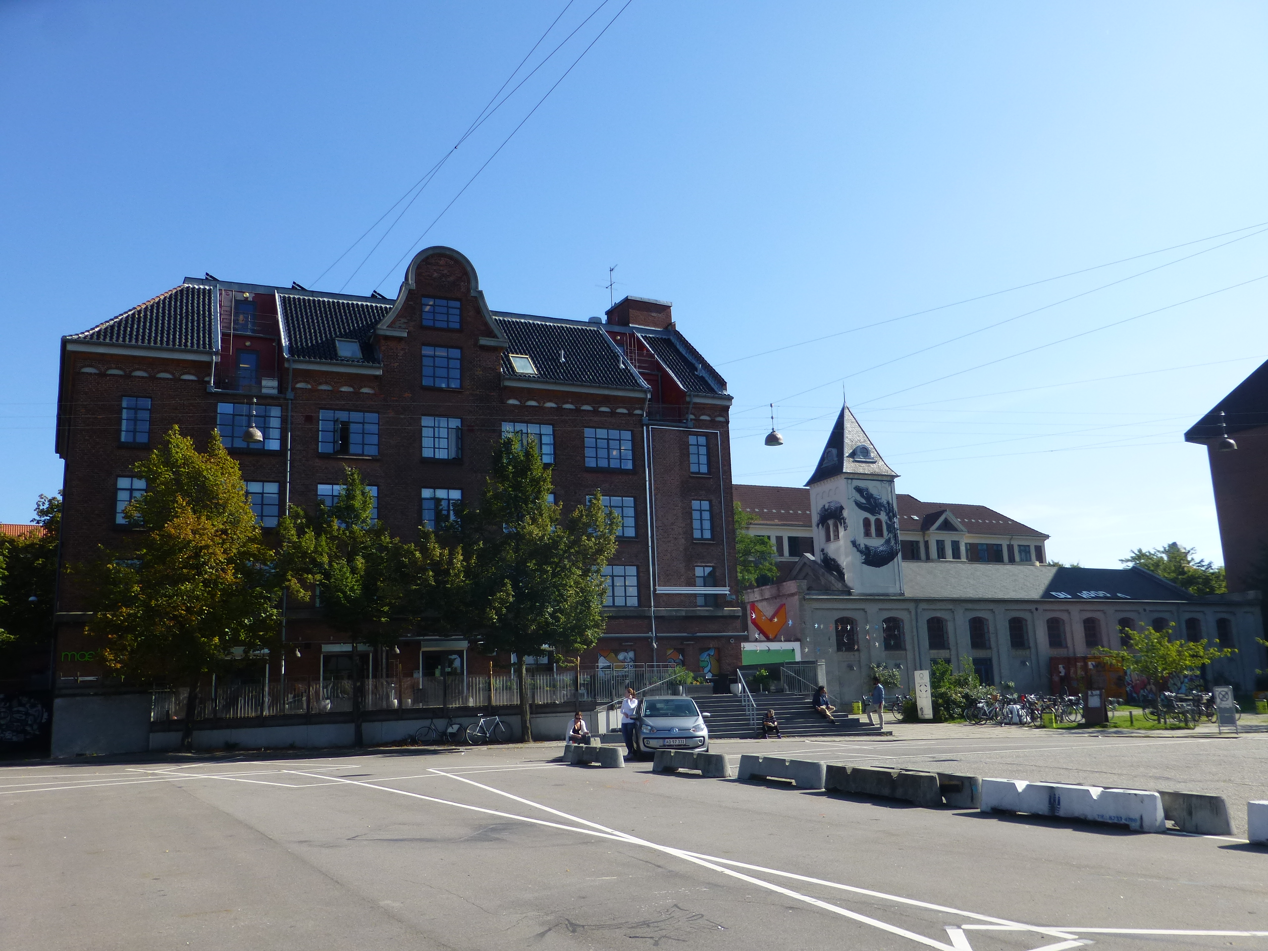 Valby Kulturhus (Valby Culture House) at Toftegårds Plads in Valby in Copenhagen.